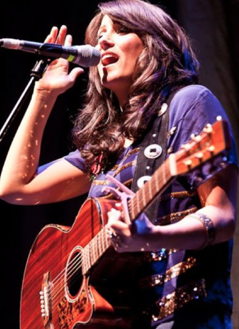 Roxanne Emery live at The Royal Festival Hall (London), November 2011